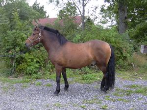 A picture of an Estonian "Öselpony".